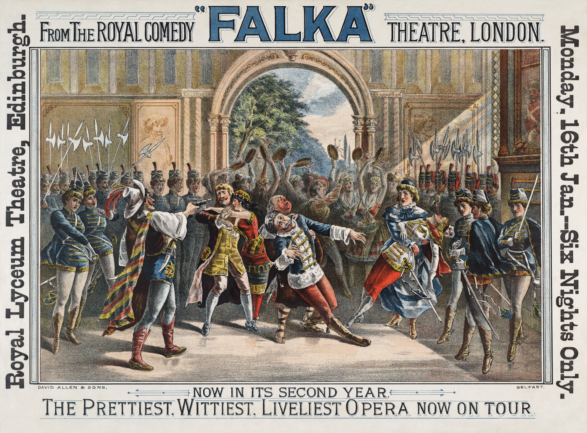 Monday, 16th Jan. - six nights only. 'Falka'. From the Royal Comedy Theatre, London. Now in its second year. The prettiest, wittiest, liveliest opera, now on tour. Printed by David Allen & Sons, Belfast.